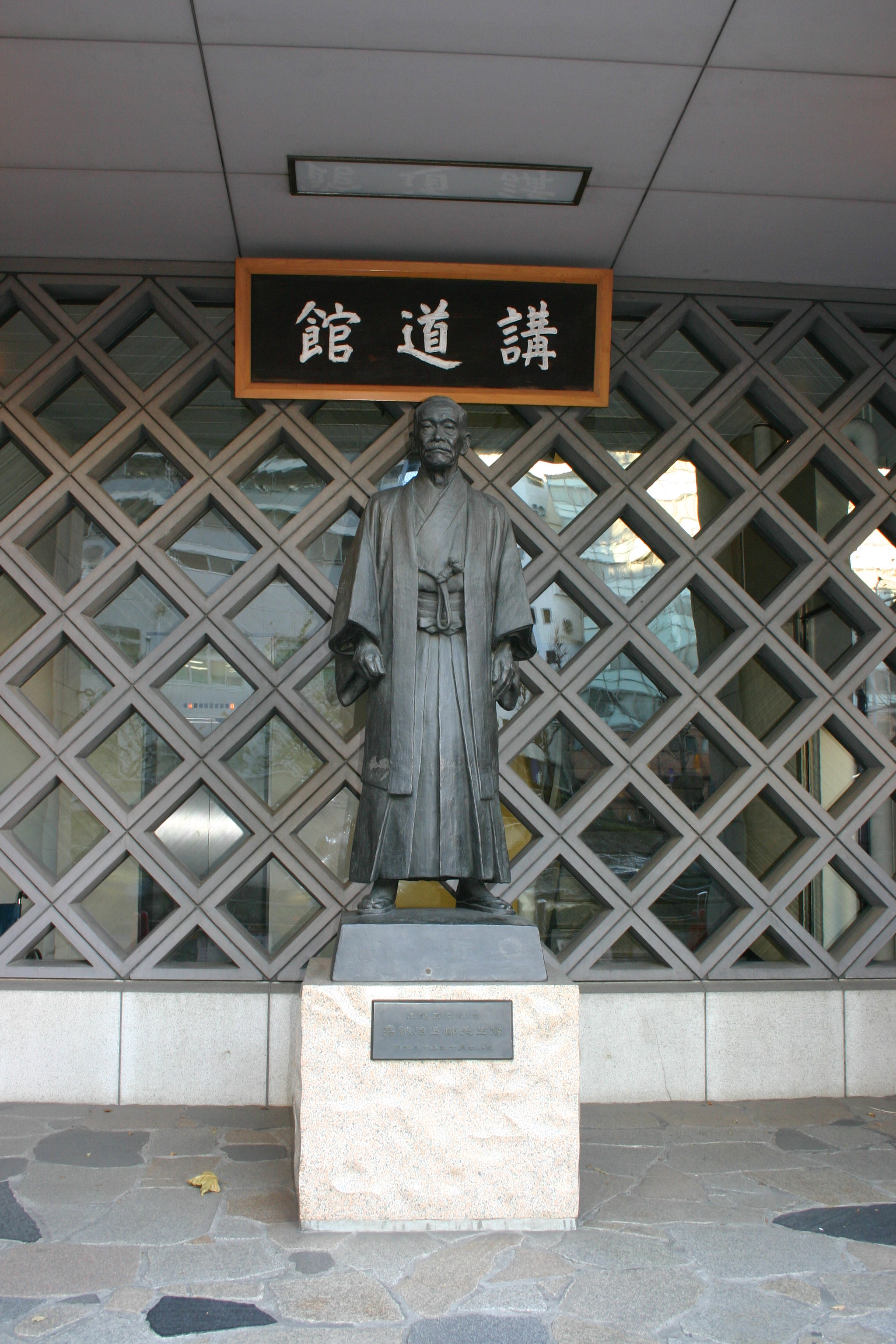 Statue of Jigoro Kano(嘉納治五郎) outside The Kodokan Institute (講道館), Tokyo. (republished statue)